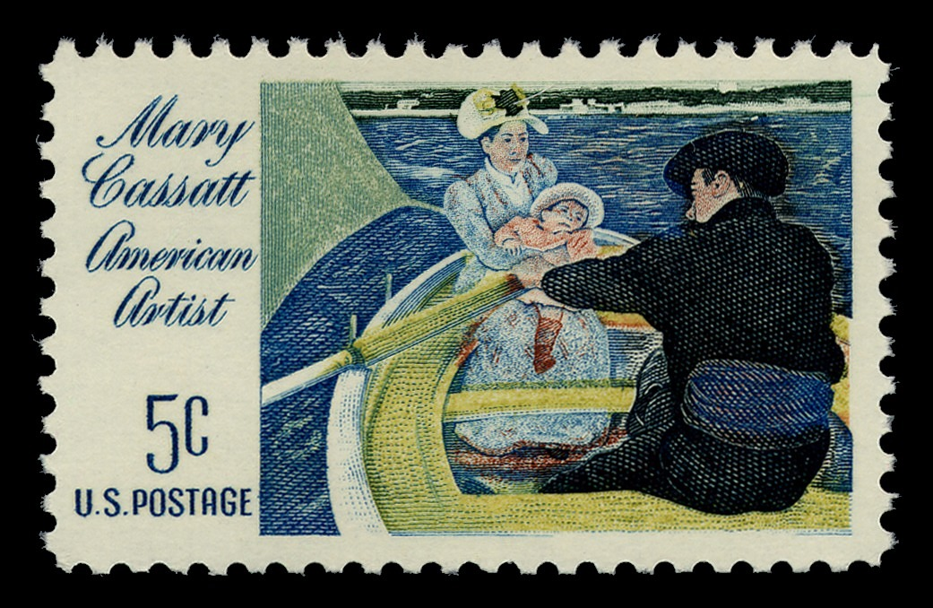 US stamp honoring Mary Cassatt